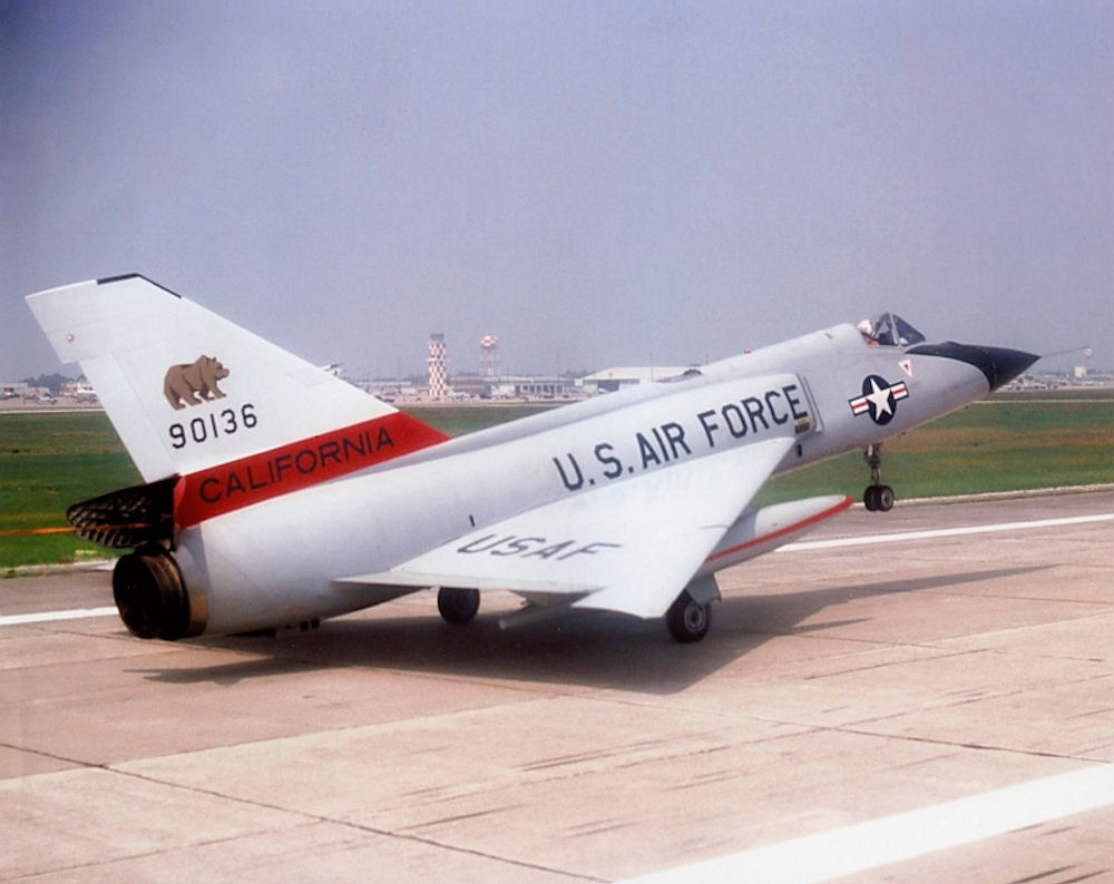 194th Fighter-Interceptor Squadron - Convair F-106A-135-CO Delta Dart 59-0136